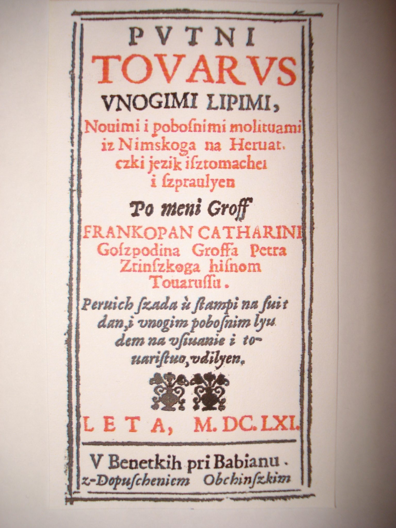 "Putni tovaruš" (Travel(ling) companion), the prayer book created and published by Katarina Zrinski née Frankopan (1625-1673), wife of Petar Zrinski, Ban of CroatiaHrvatski: "Putni tovaruš" (Suputnik), molitvenik kojeg je priredila i objavila Katarina Zrinski rođ. Frankopan (1625-1673), supruga Petra Zrinskog, hrvatskog bana